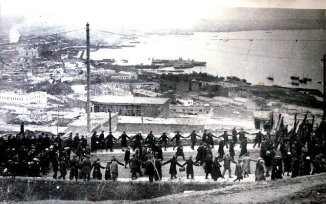 Funerals of Jafar Jabbarly in Baku.